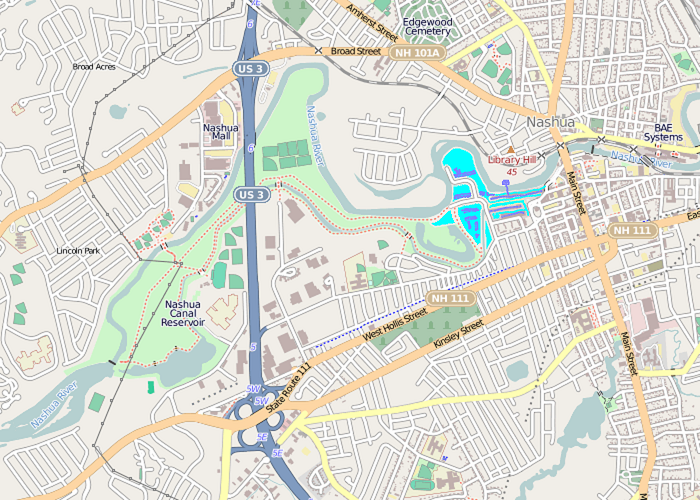 Open street map detail with Mine Falls Park in green and the Nashua Manufacturing Company Historical District highlighted in blue.